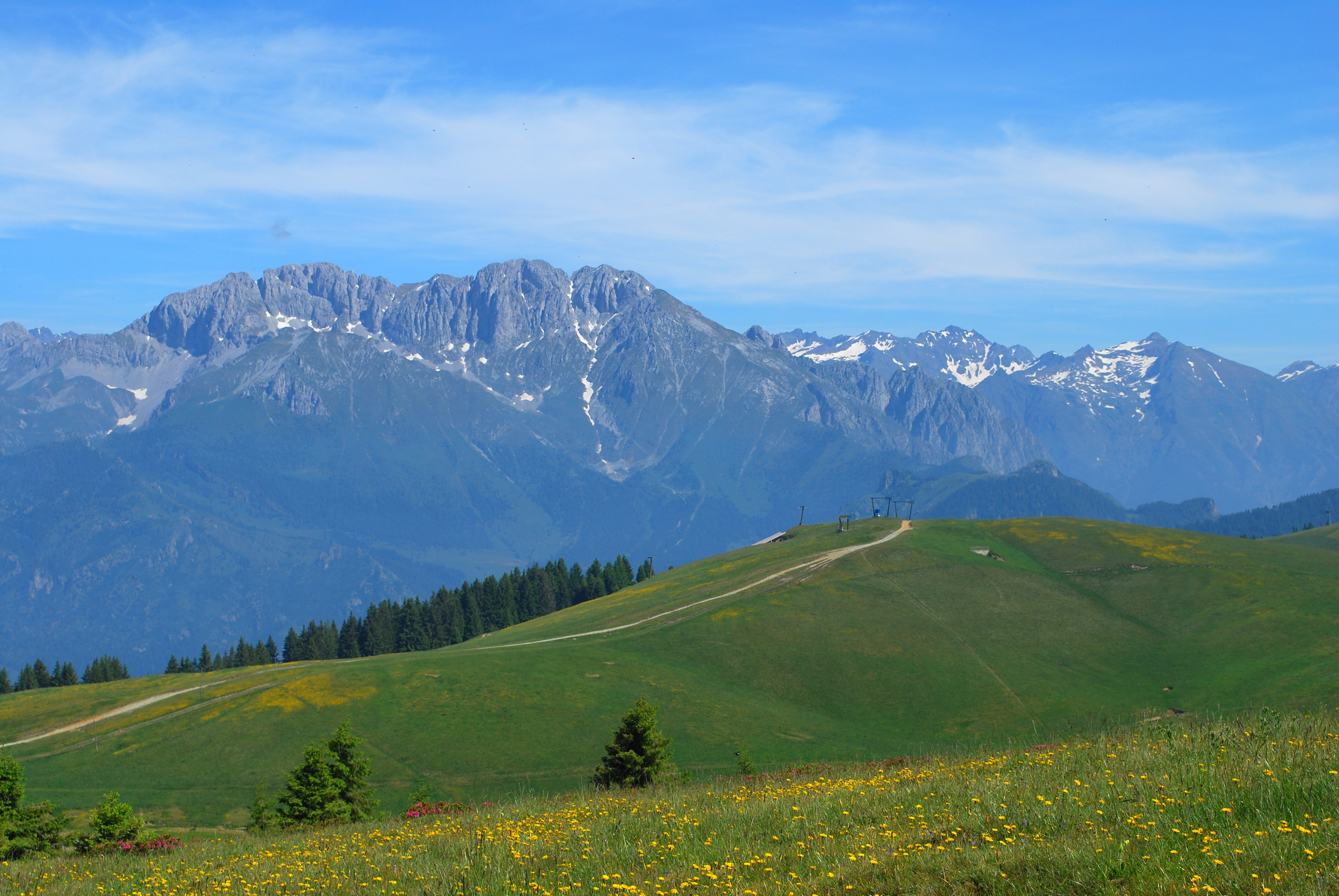 Presolana, Lombardy, Italian Alps